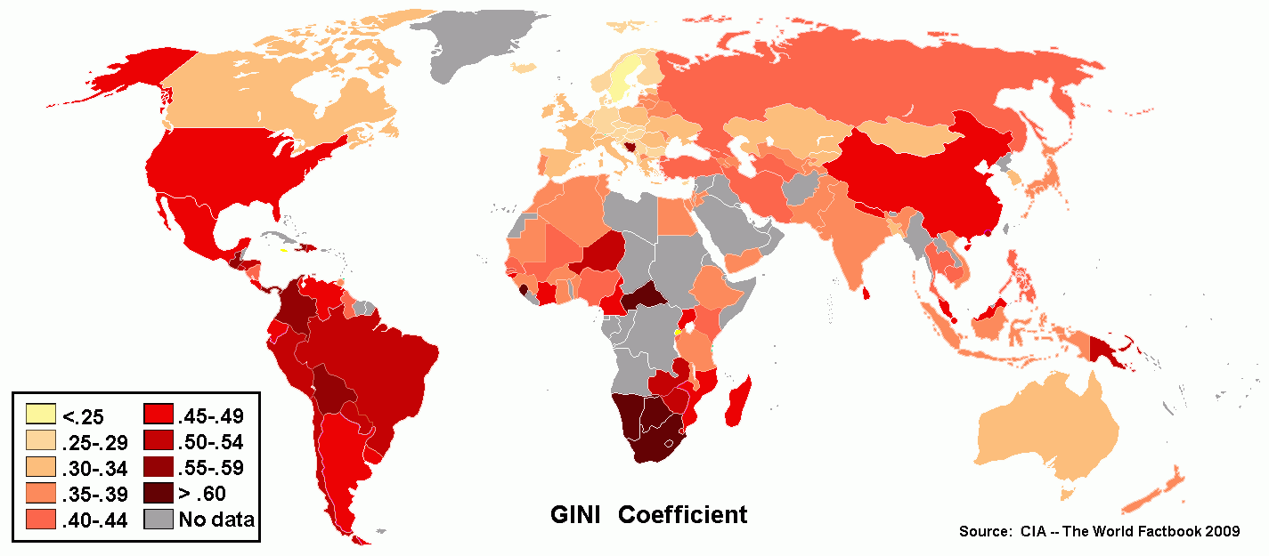 Gini-coefficient of national income distribution around the world (using 1989-2009 CIA estimates)